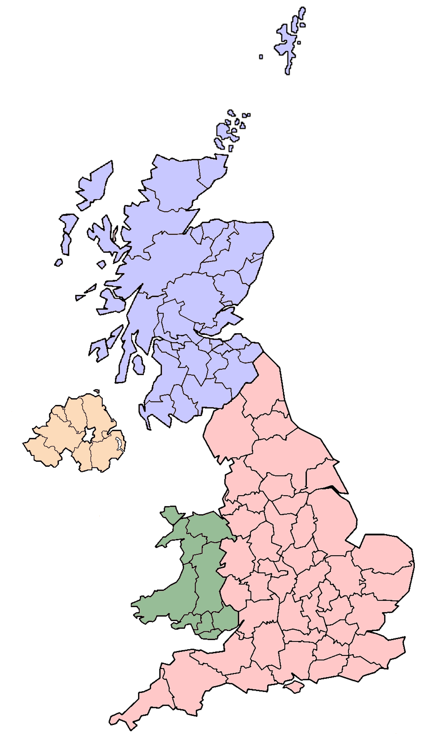 The Lieutenancy areas of the United Kingdom, In addition: England Wales Northern Ireland Scotland